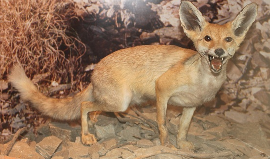 حيوان محنط